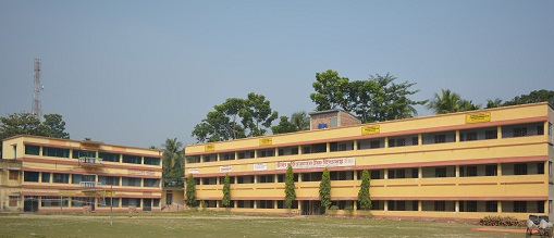 The old Building of the School.